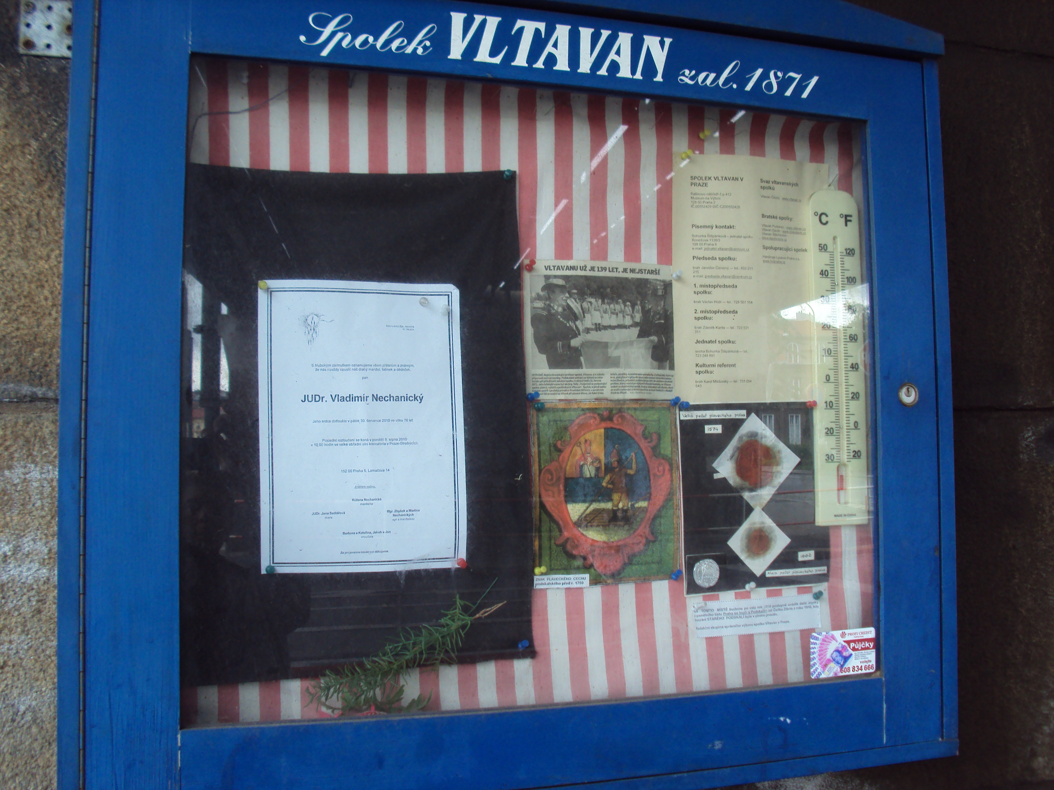 League message board on the street in the district of Vysehrad in Prague (per Google translate)